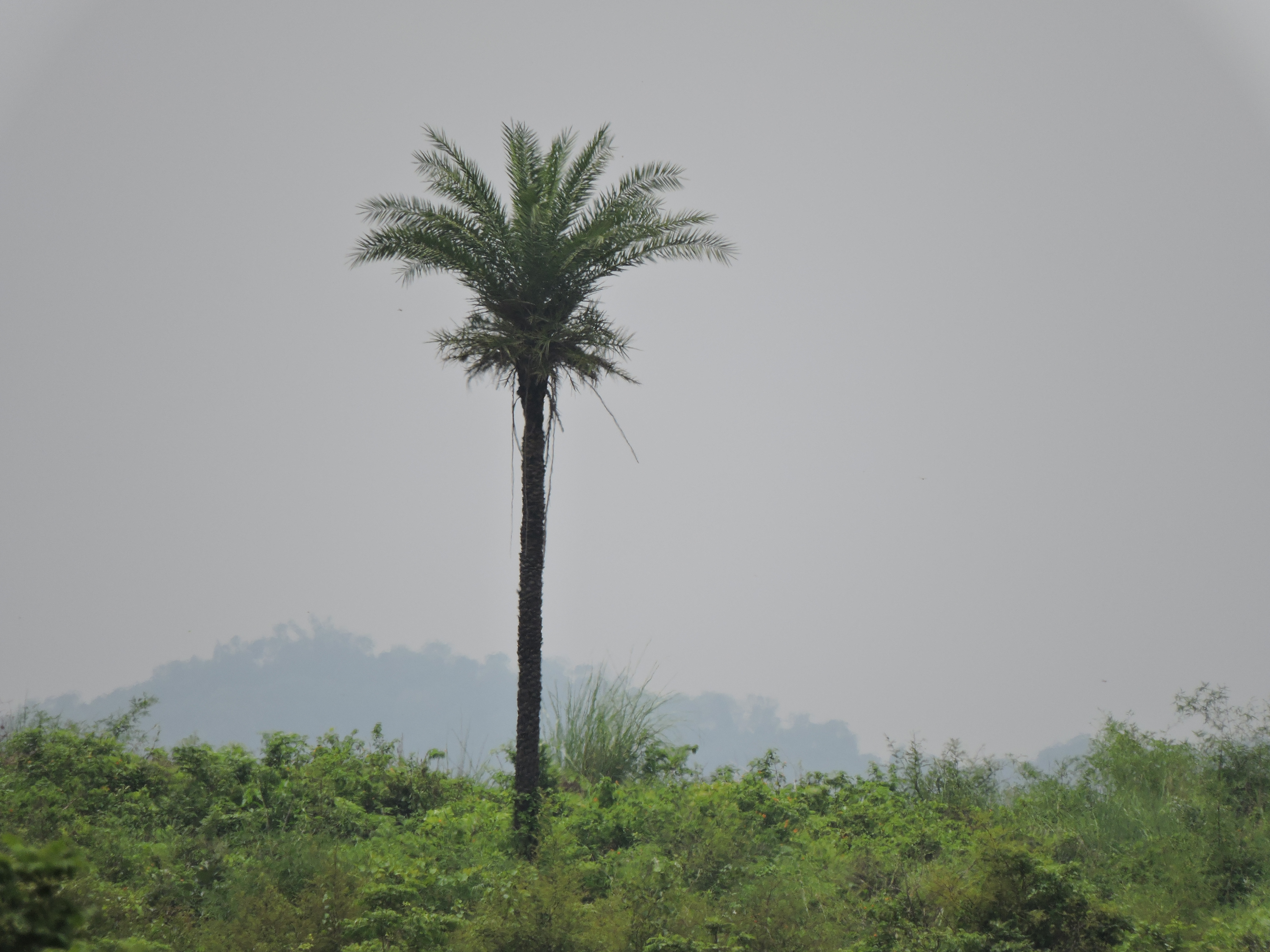 Date Palm, Kalka, Haryana,India